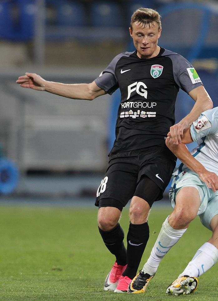 Yevgeni Chernov with FC Tosno in a game against FC Zenit Saint Petersburg.